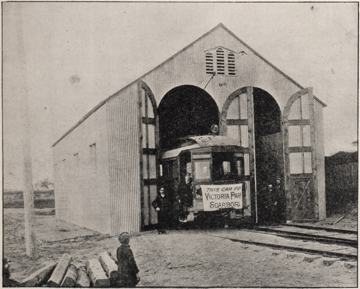 Car barn, Toronto and Scarboro' Electric Railway, Kingston Road, north side, between Walter Street and Malvern Avenue (then called Charles Street), Toronto, Ont., 1894. Image published in Toronto Globe, 13 January 1894, p. 2.